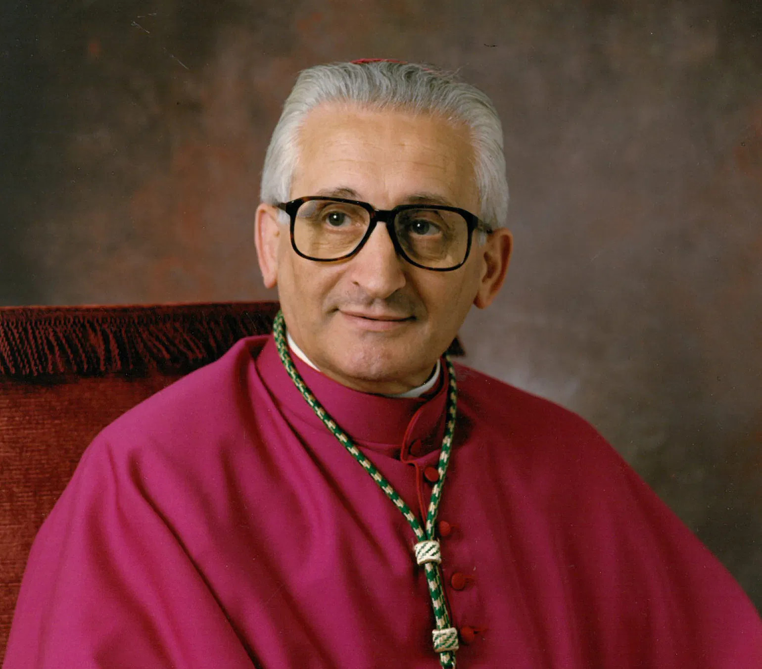 Official portrait of mgr. Fernando Charrier